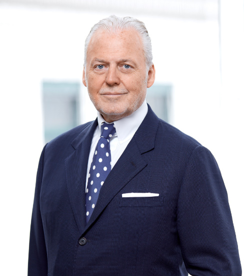 Falstaff Publisher Wolfgang Rosam